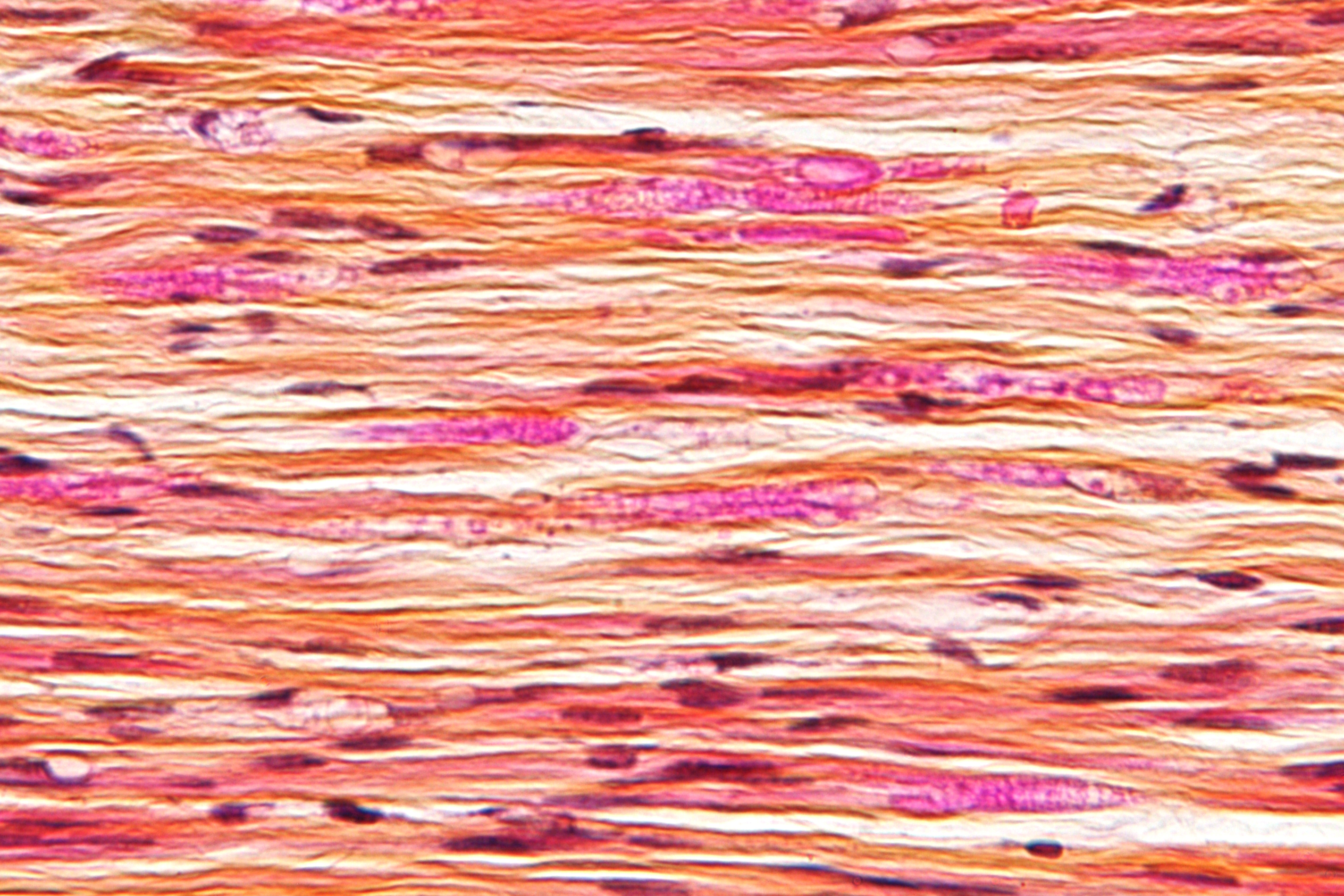 Very high magnification micrograph showing a nerve with endoneurial fibrosis. HPS stain. Related images Very high mag. High mag.